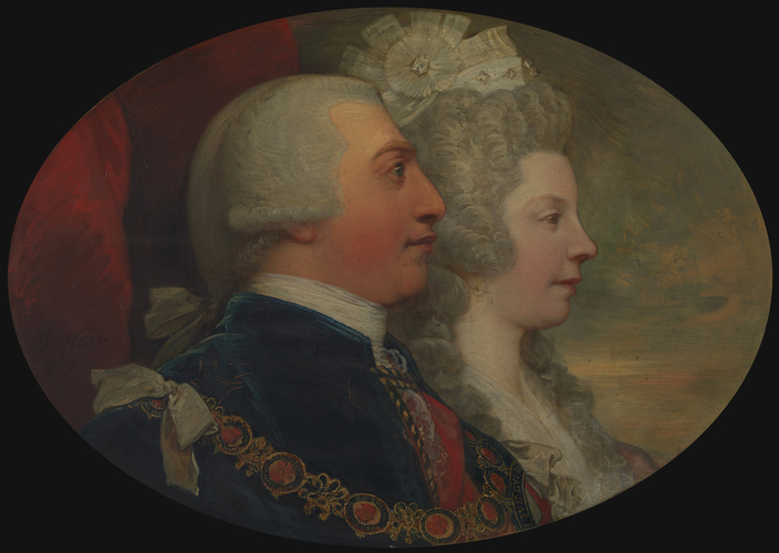 Portrait of King George III and Queen Charlotte of the United Kingdom